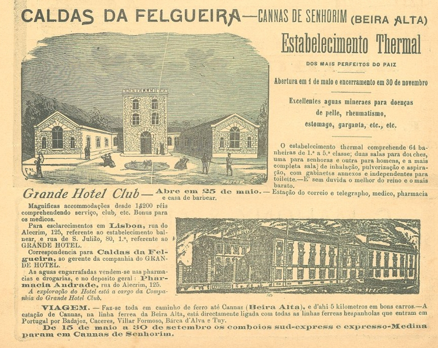 Advertisement for the Caldas da Felgueira spa, in the Viseu District, Portugal. It informs the public that there was a carriage service from the Cannas de Senhorim train station (future Canas - Felgueira), in the Beira Alta Railway. This image was published on the Gazeta dos Caminhos de Ferro magazine no. 349, of the 1st July 1902, and scanned by the Hemeroteca Municipal de Lisboa.